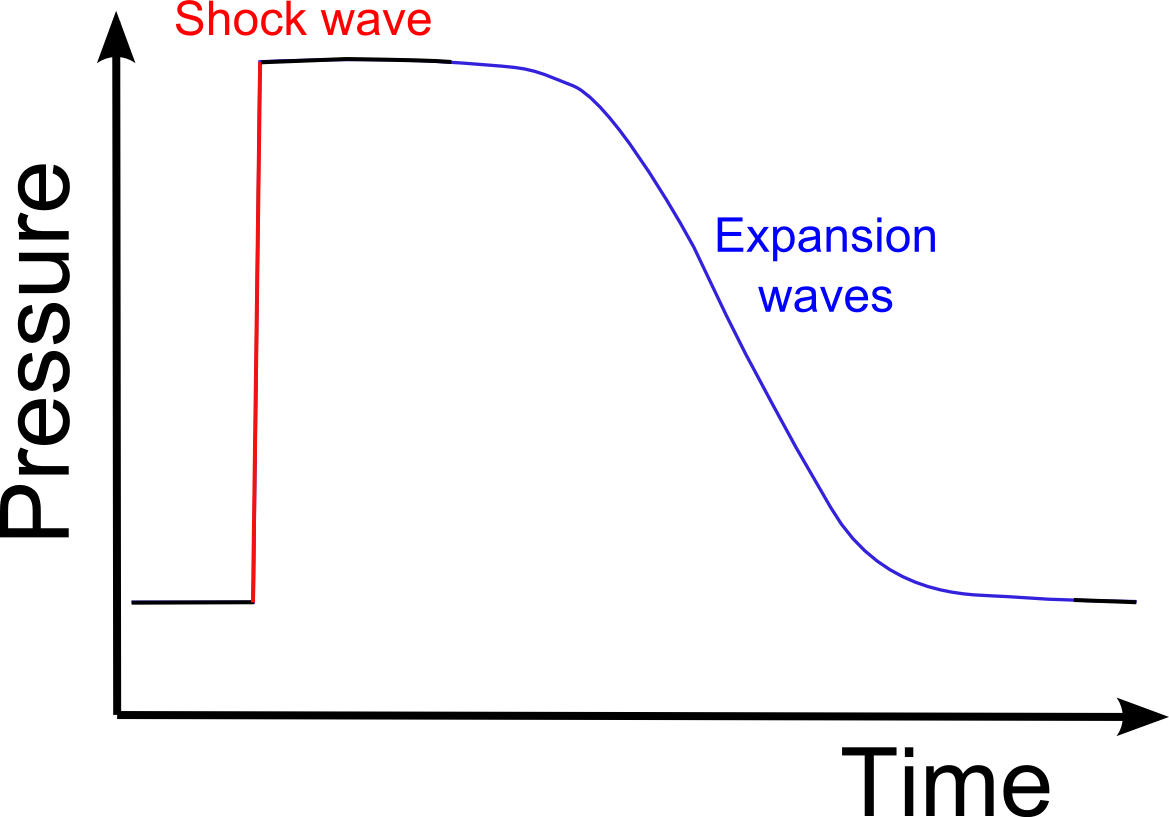 The figure shows the variation in pressure behind a shock wave followed by expansion waves. The shock wave leads to an abrupt rise in the pressure.